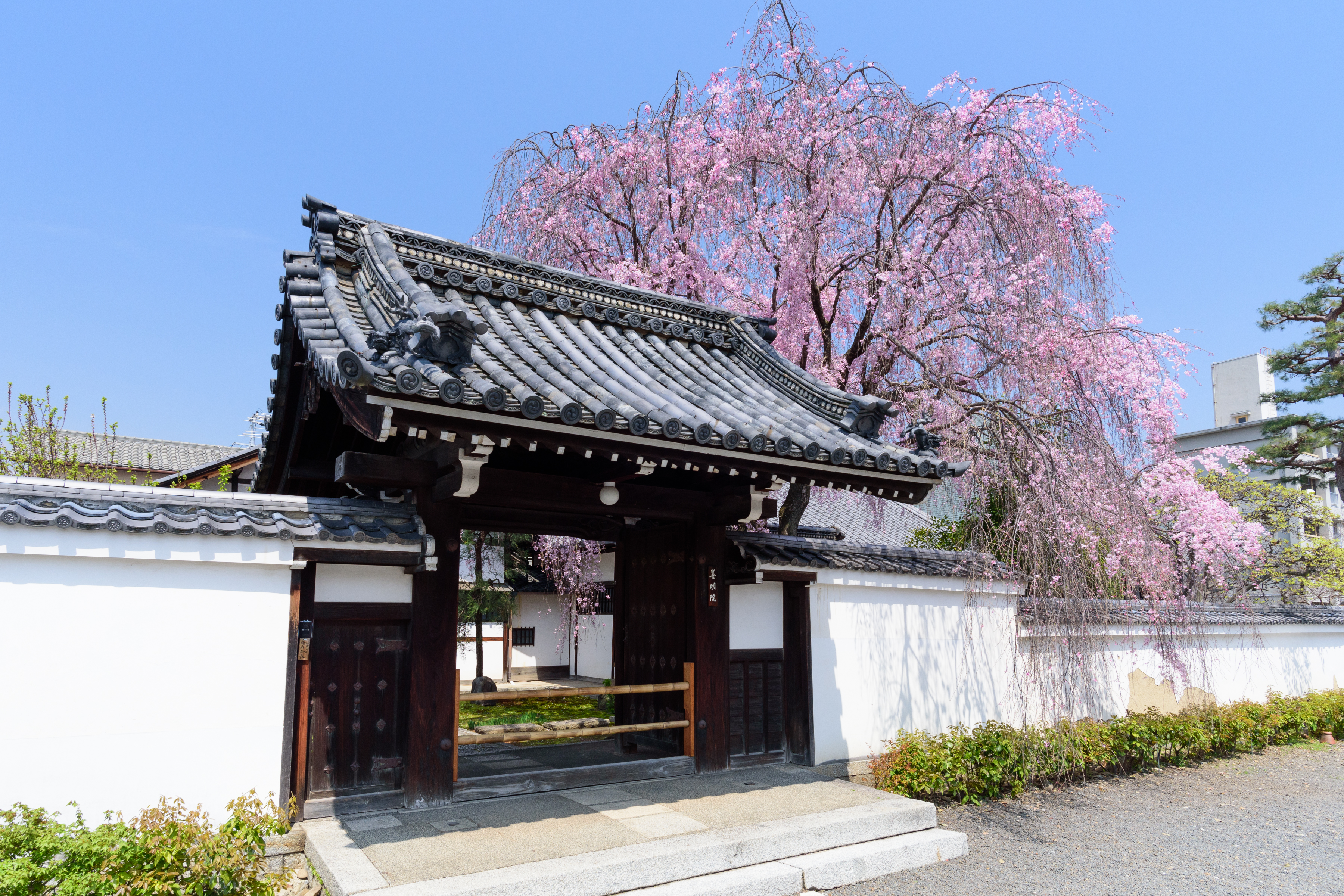 Zenmyoin in Myokakuji Temple, Kamigyo-ku, Kyoto, Japan